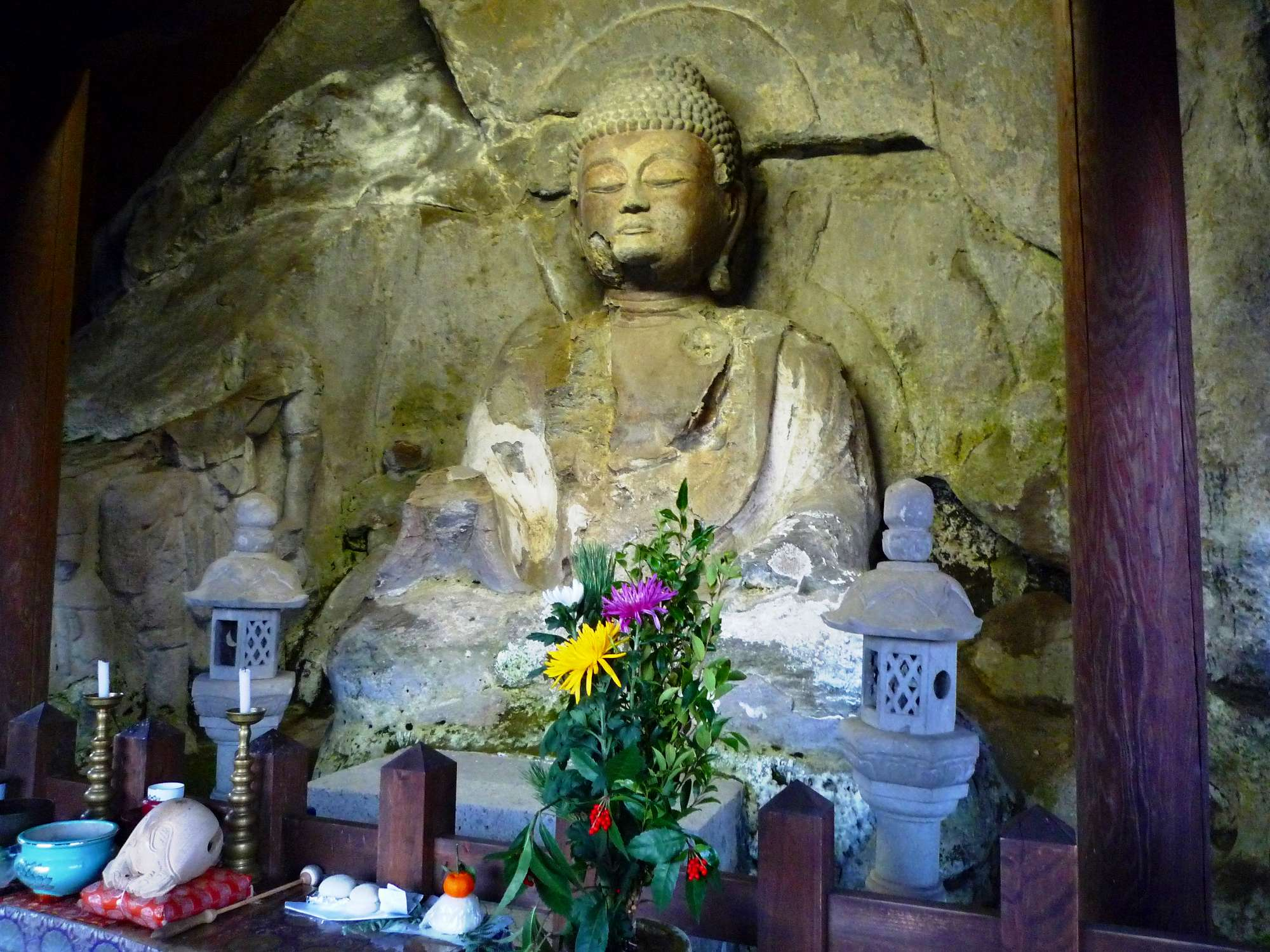 Oita-Motomachi_Stone_Buddhas